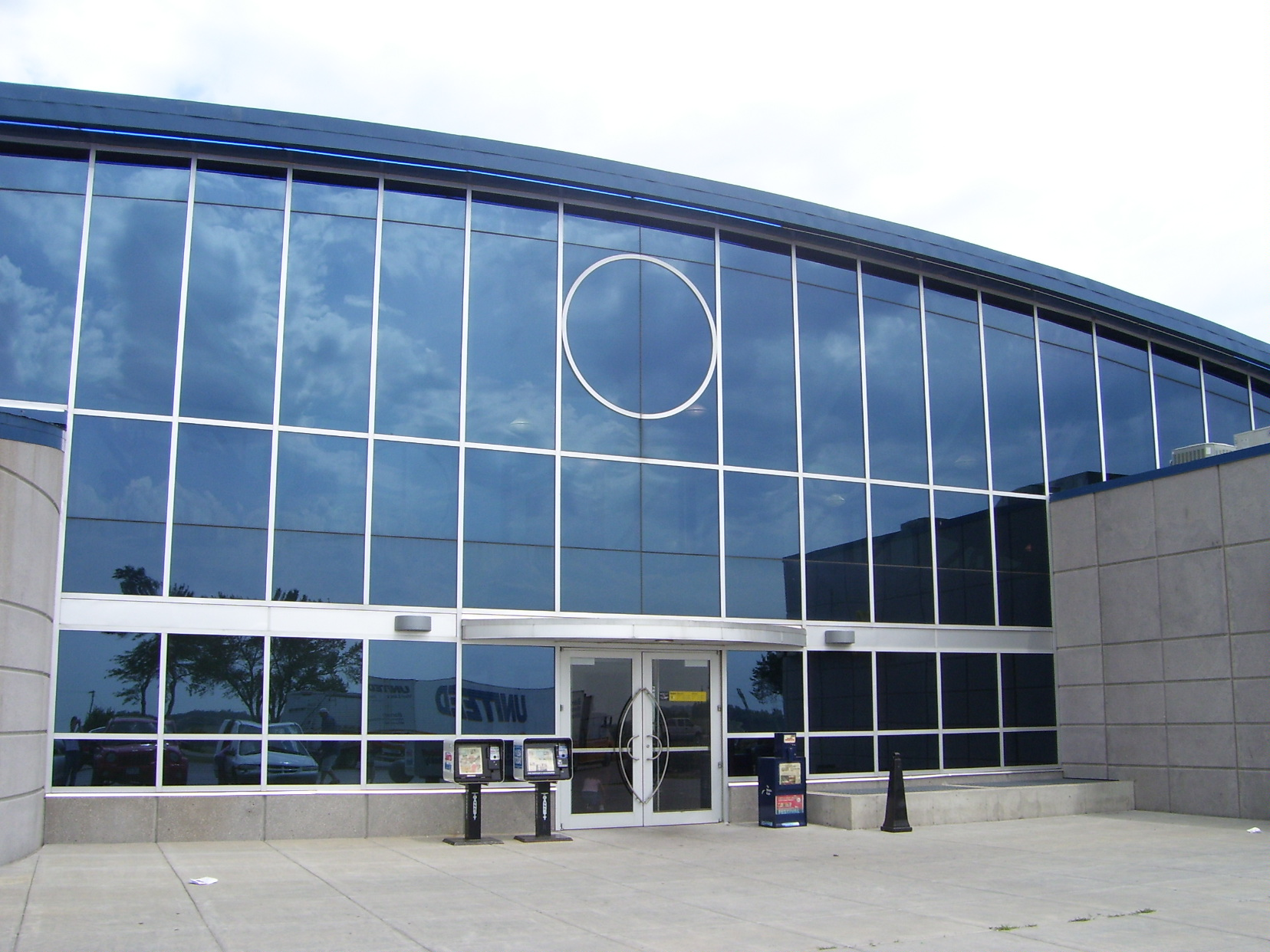 The Towanda Service Area on the Kansas Turnpike, near Towanda, Kansas.